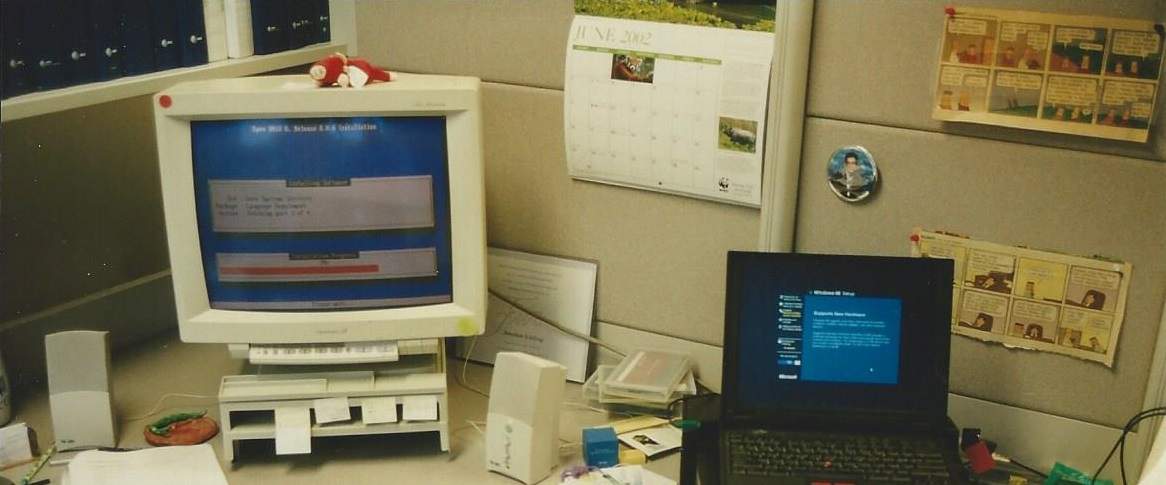 A desk within a private office at Caldera International's Murray Hill, New Jersey office, as seen in June 2002. The display on the left shows an installation screen for Open UNIX 8, the renamed version of UnixWare 7.1.2 that was so branded during the Caldera International period.